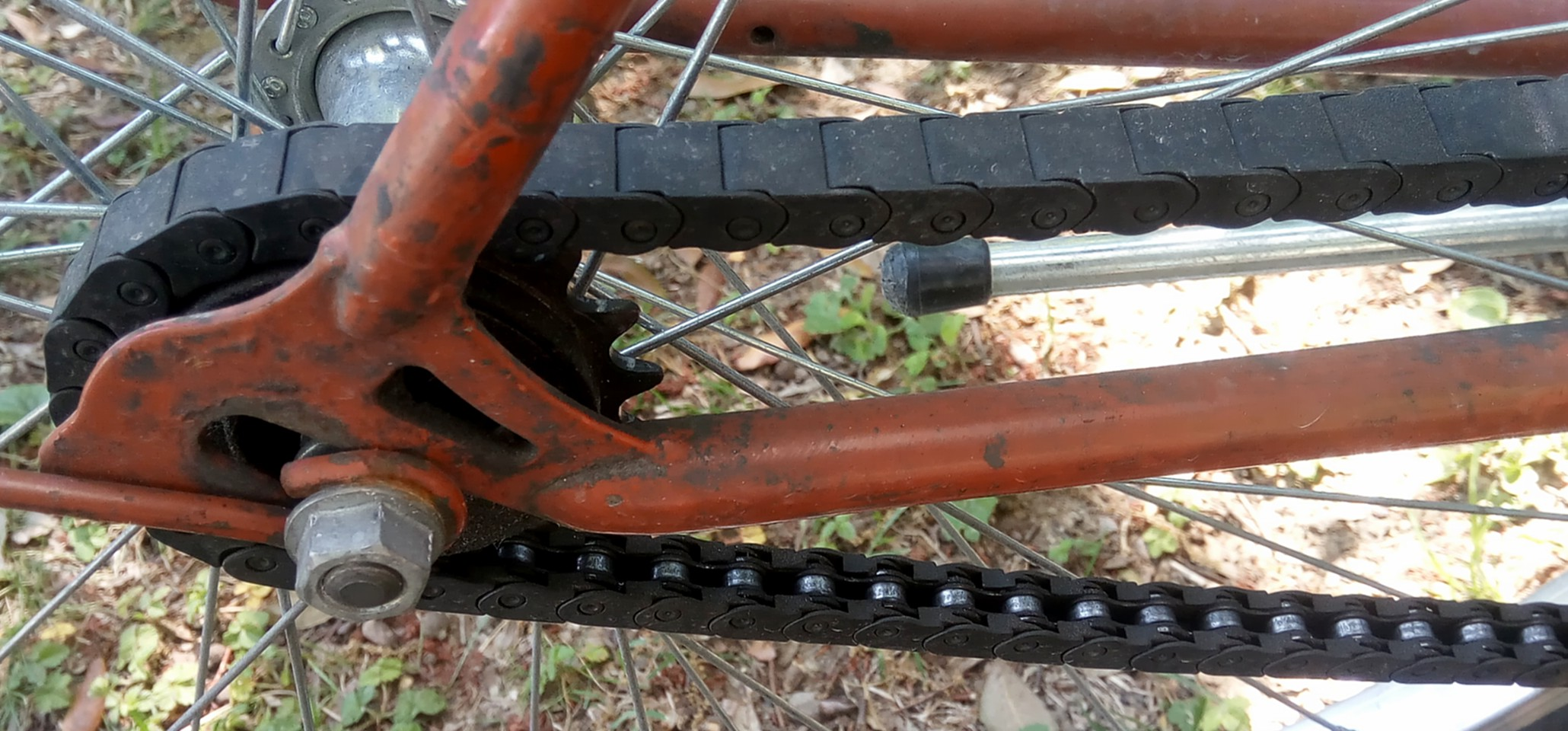 Sturdy protective cover for mounted bicycle chain